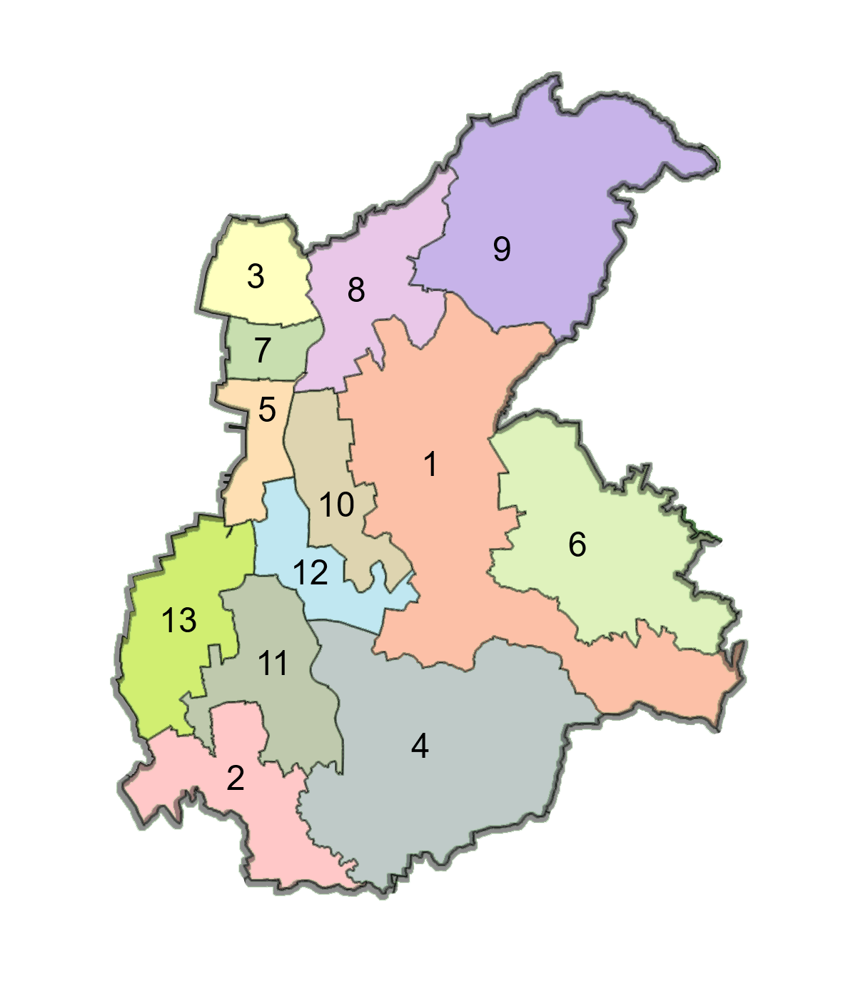 Map of all 13 local communities (krajevne skupnosti - KS) in the Municipality of Domžale. (With marked numbers) 1: KS Dob 2: KS Dragomelj-Pšata 3: KS Homec-Nožice 4: KS Ihan 5: KS Jarše-Rodica 6: KS Krtina 7: KS Preserje 8: KS Radomlje 9: KS Rova 10: KS Toma Brejca Vir 11: KS Simona Jenka 12: KS Slavka Šlandra 13: KS Venclja Perka (On the official documents, these local communities are listed like this - by alphabetic order, with the 3 local communities in which the city of Domžale is located at the end.)